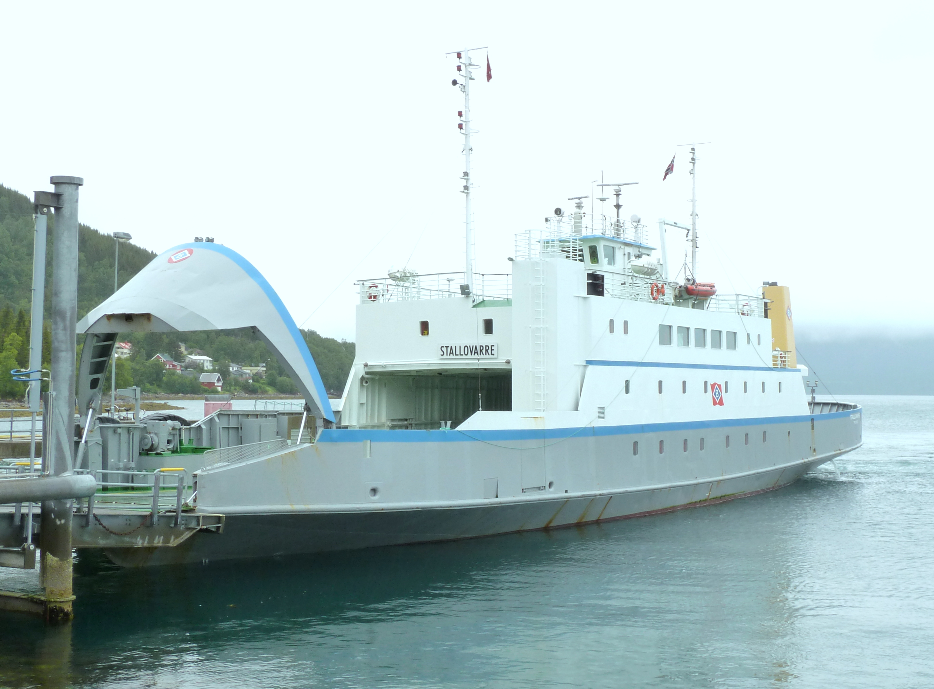 Norwegian car ferry MF «Stallovarre» (ex MF «Solbakk») owned by Bjørklids Ferry Company in dock at Lyngseidet in Troms.